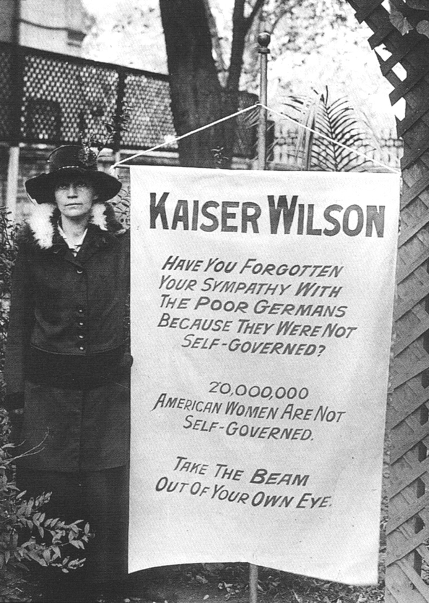 Photograph of Virginia Arnold posing with banner: "Kaiser Wilson Have you forgotten your sympathy with the poor Germans because they were not self-governed? 20,000,000 American women are not self-governed. Take the beam out of your own eye."